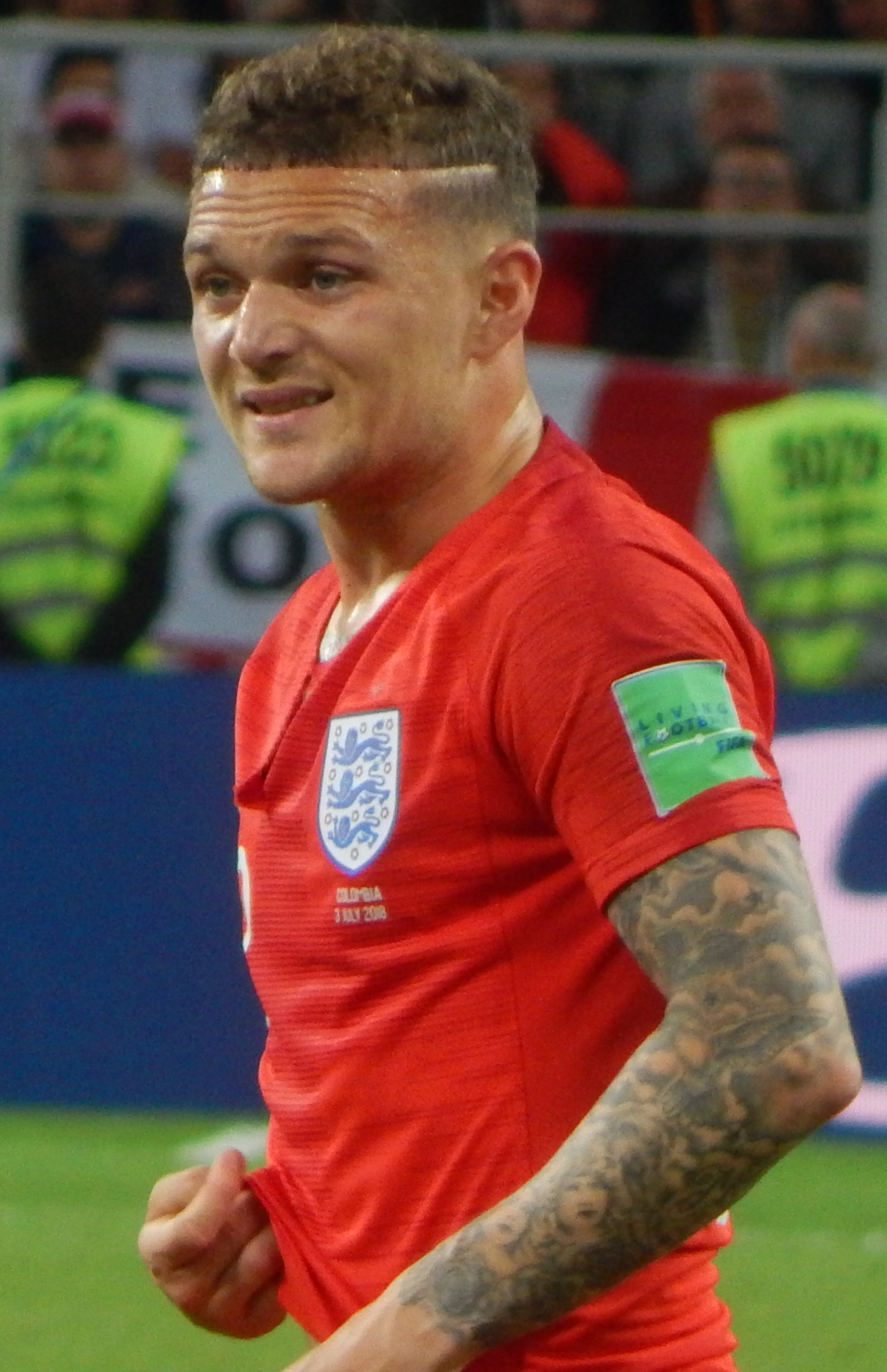 FIFA World Cup 2018, Round of 16, Colombia vs. England